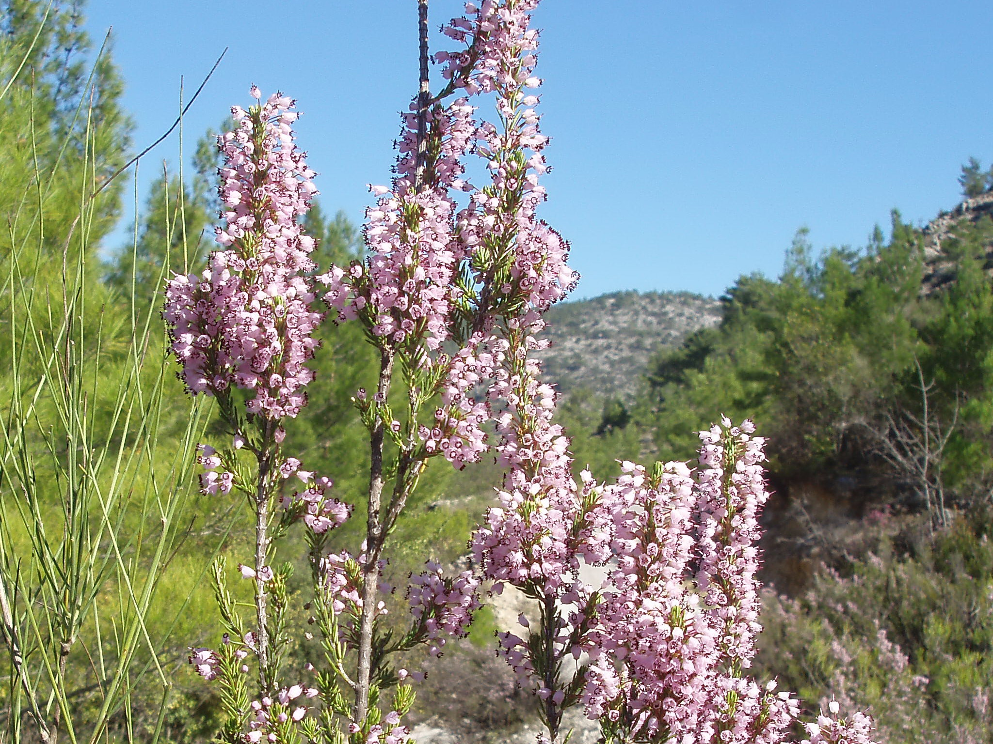 An Erica manipuliflora in Mersin.